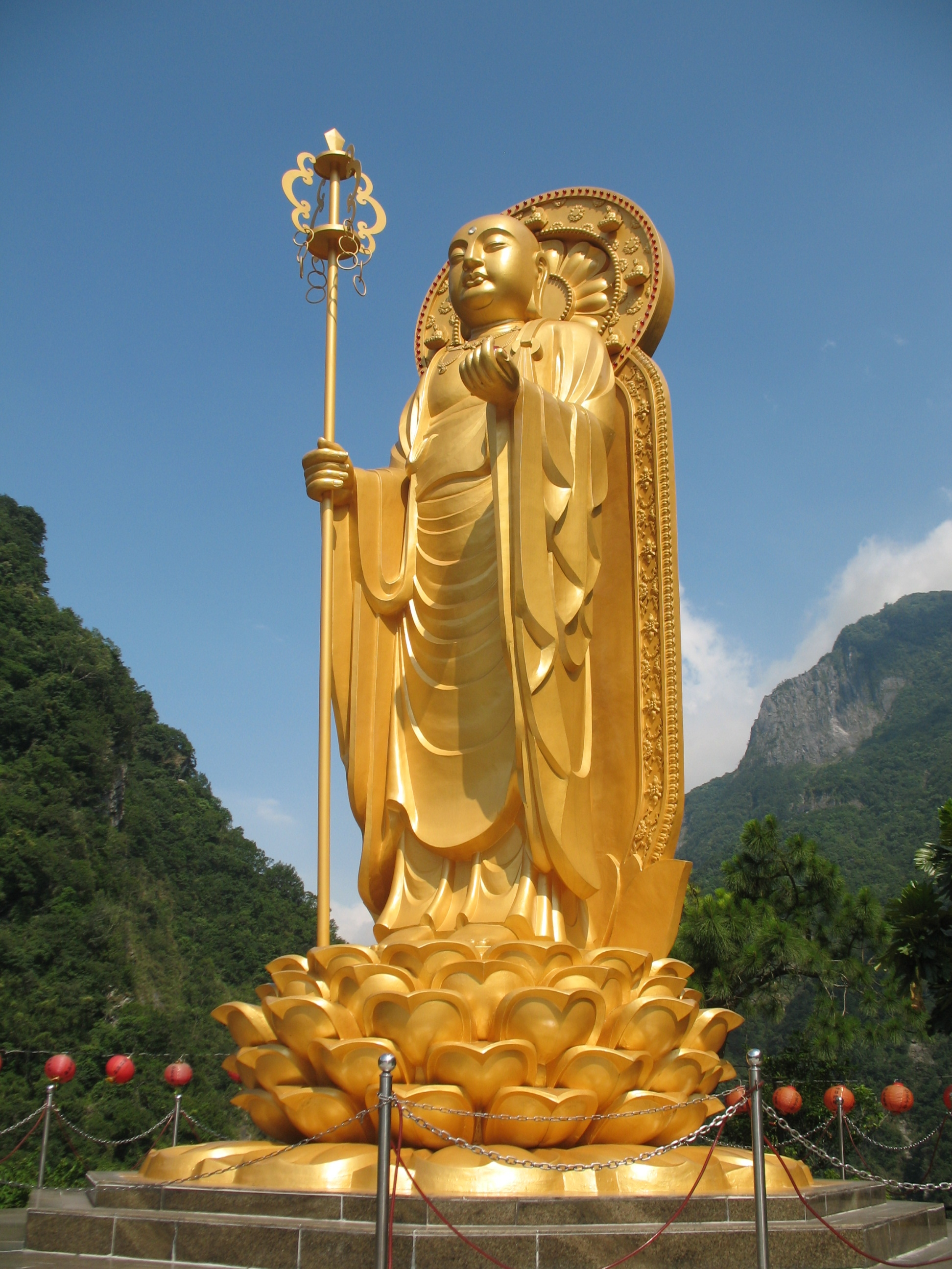 Tianxiang - Xiangde Temple - Ksitigarbha Bodhisattva statue